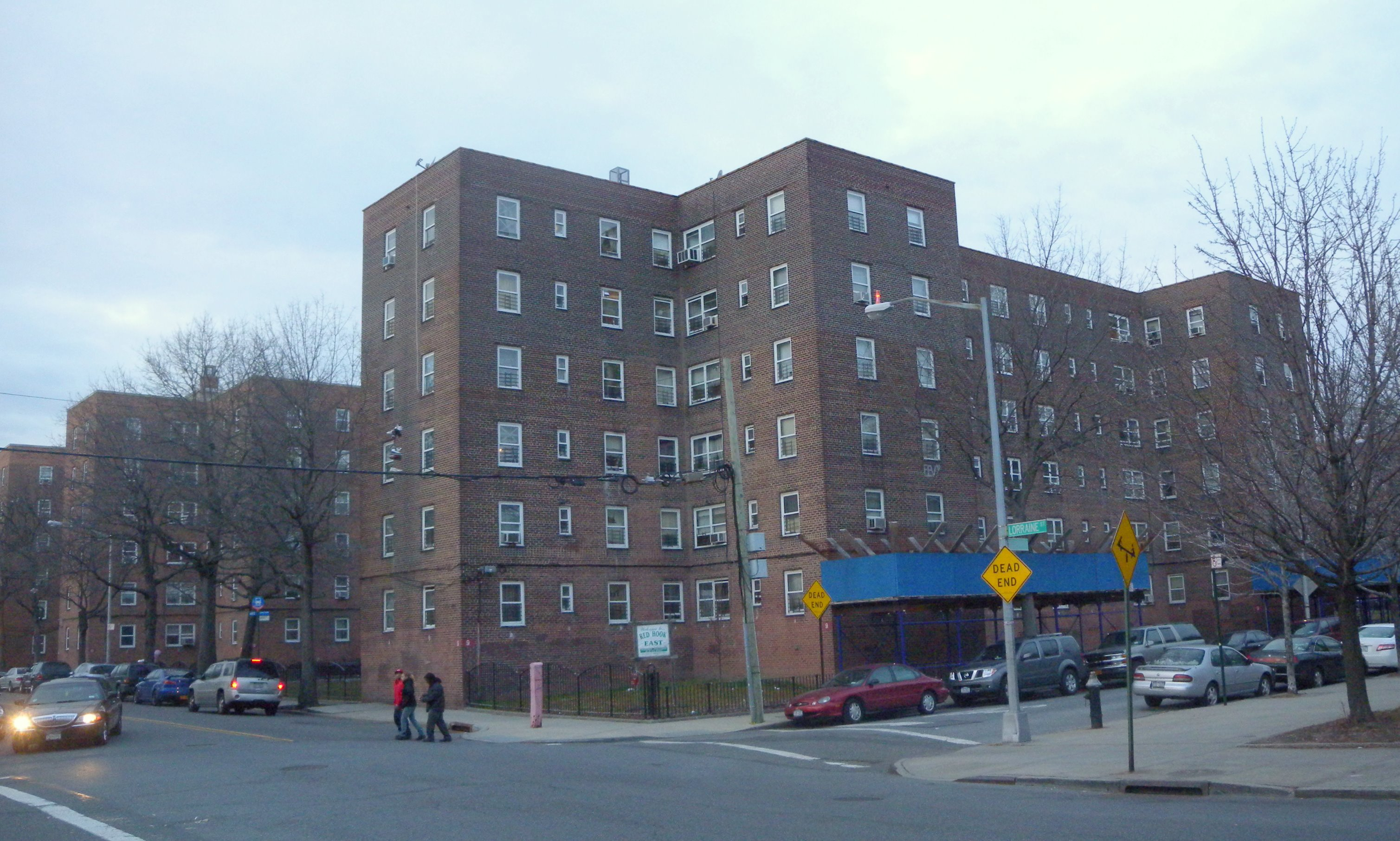 Looking northwest across Lorraine and Henry Streets on a cloudy dusk.